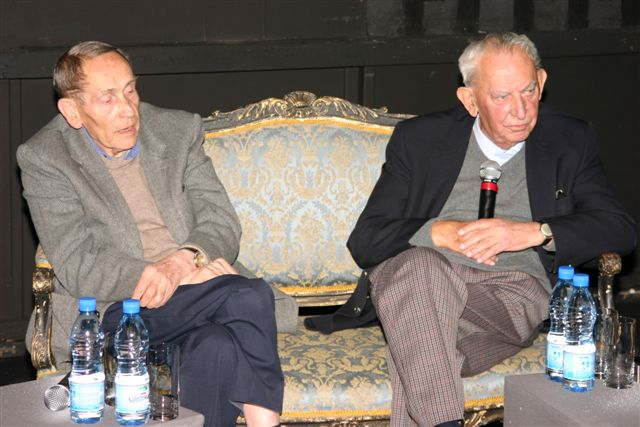 from left to right: Tadeusz Konwicki (1926-2015), Polish writer and Gustaw Holoubek (1923-2008), Polish actor and theater director